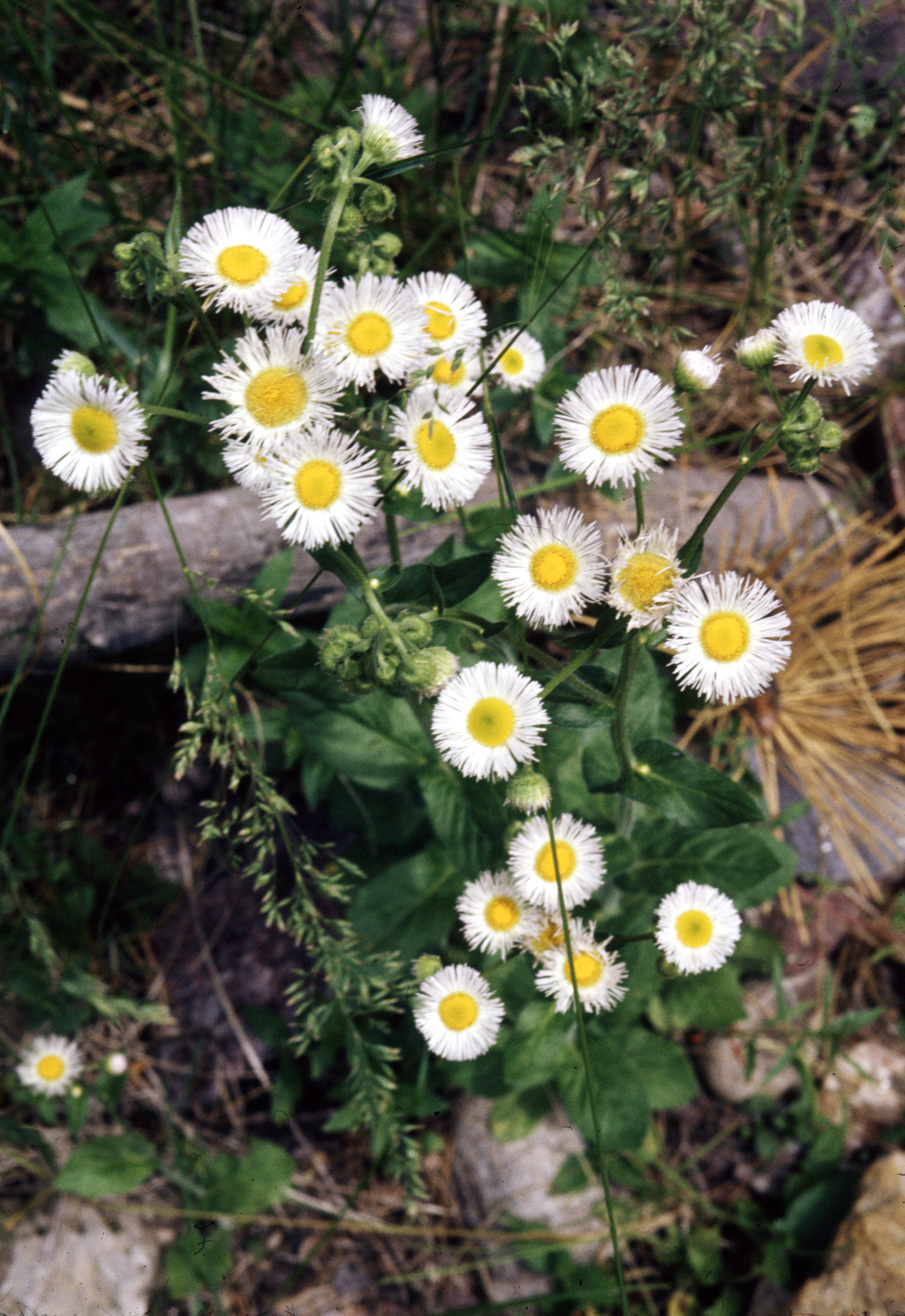 Erigeron pumilus, at Wind Cave National Park, South Dakota, USA